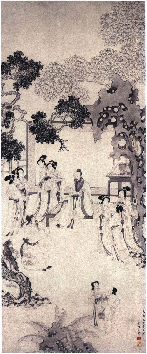 You Qiu (act. ca. late 16th c. - ca. early 17th c.), Ming dynasty (1368-1644). Dated 1575, hanging scroll, ink on paper, 113×46 cm (see [1]